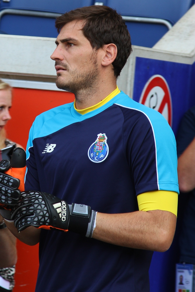 Iker Casillas in Porto